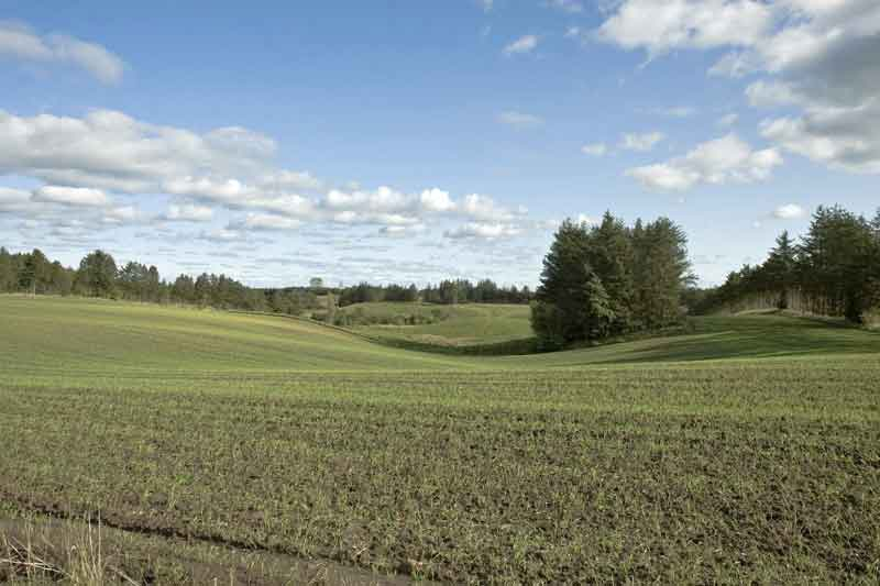 Small undulating hills in the Danish countryside, Vendsyssel, Denmark